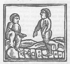 Roman hopscotch (700 CE)